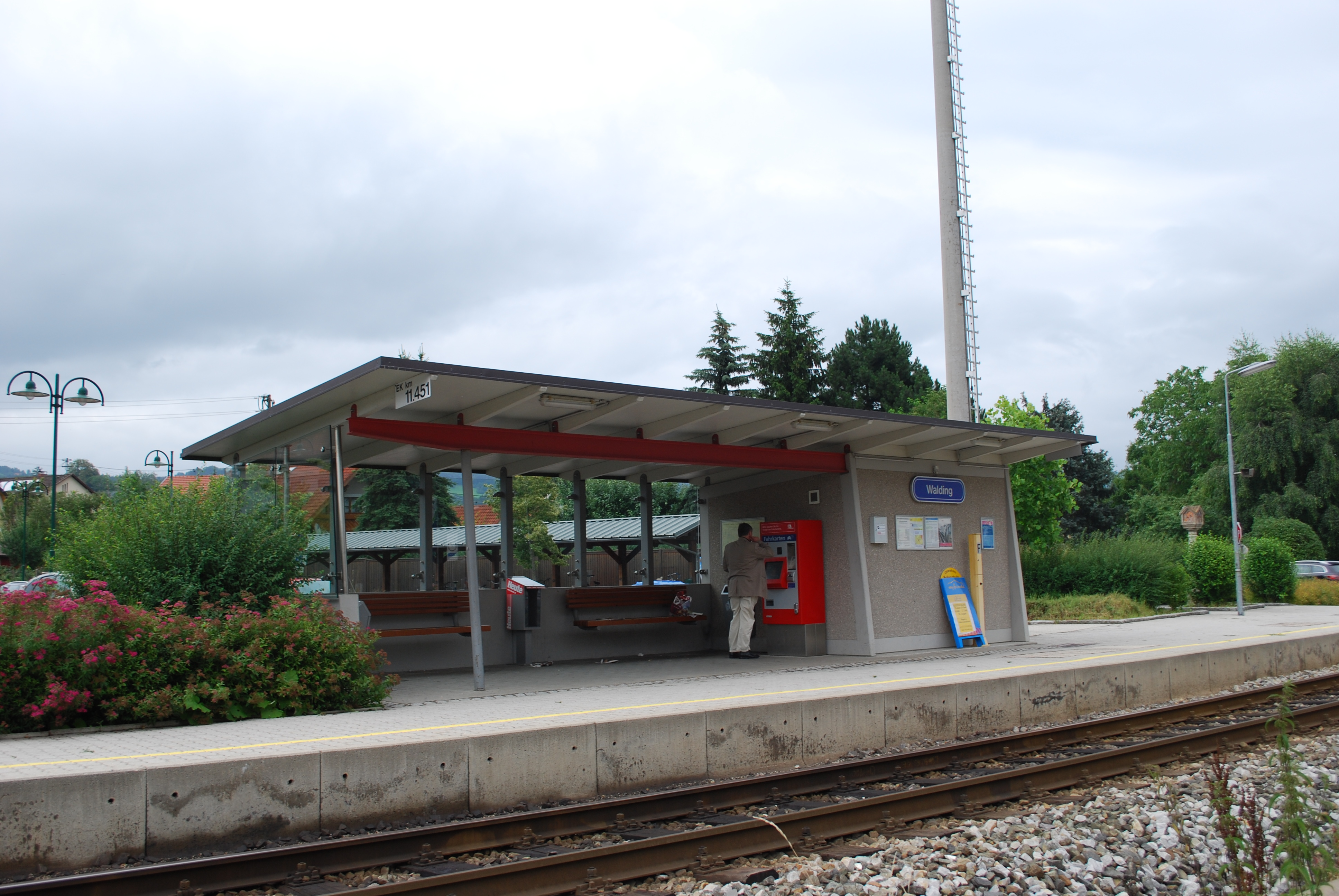 Trainstation Walding